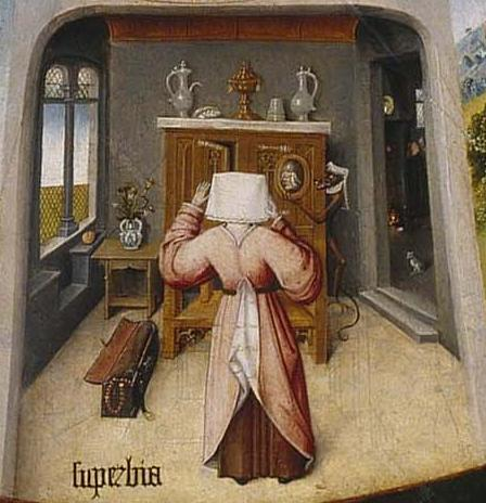 Table of the Mortal Sins [detail: Superbia (pride)].